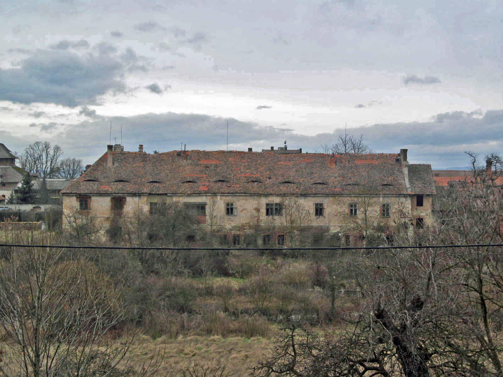 Castle in Lipno